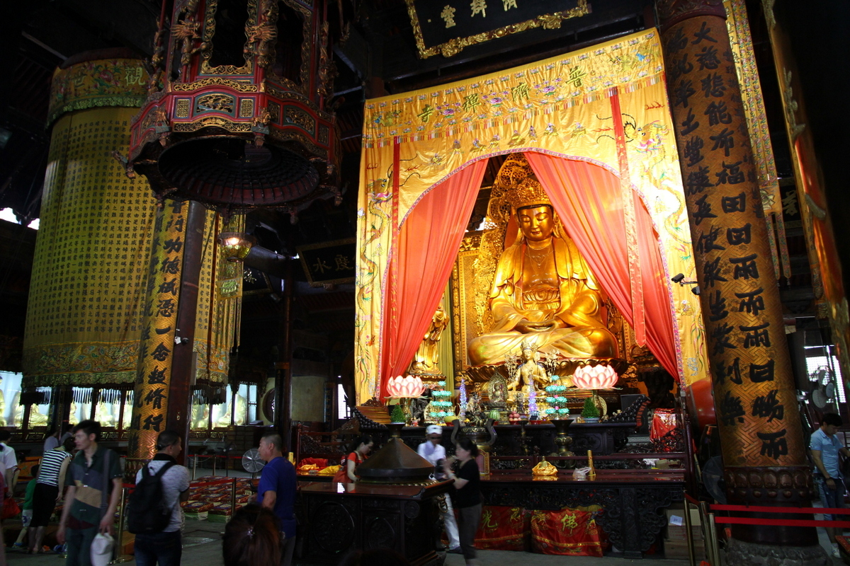 A Buddha Image in Puji Temple on Putuo Shan island